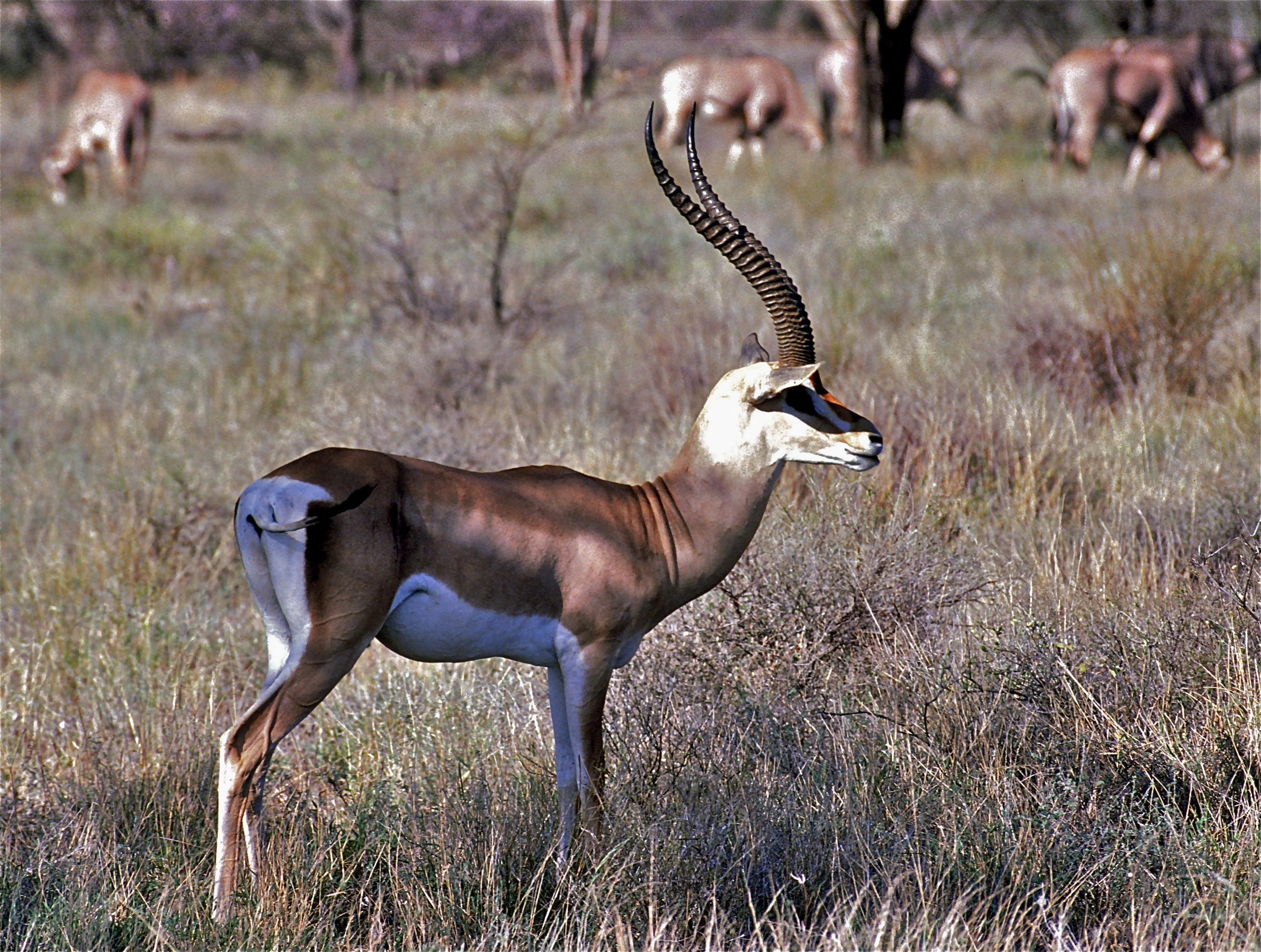 Samburu National Reserve, KENYA Scanned slide from 2004